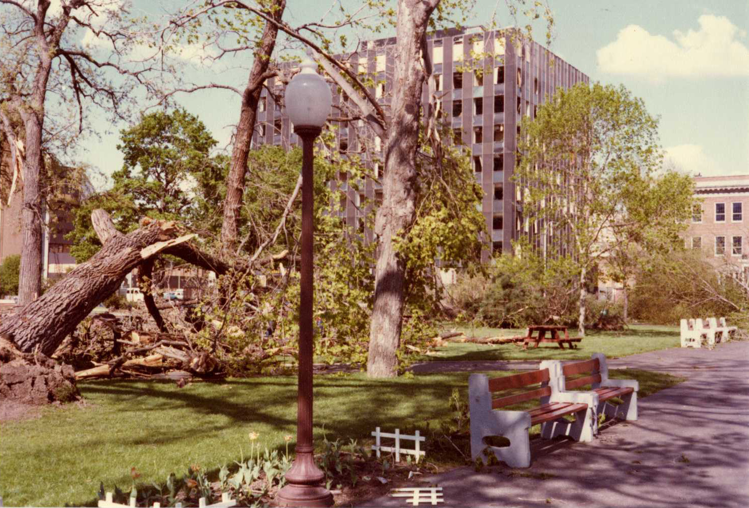 Taken from the south side of Bronson Park (Presbyterian Church area) and looking towards the ISB Building. Photo by David Kamm.